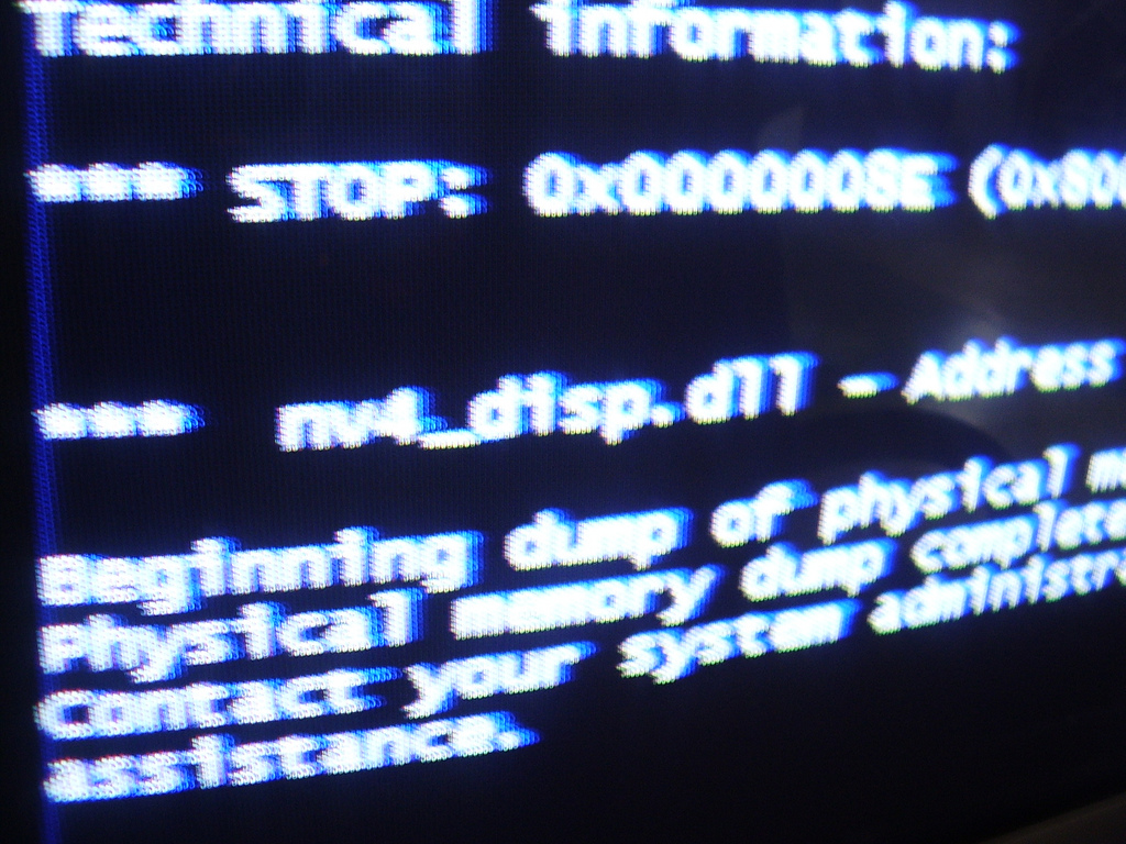 A close-up shot of a Blue screen of death on an arcade machine. For some reason, the author has titled it ".DLL Hell".